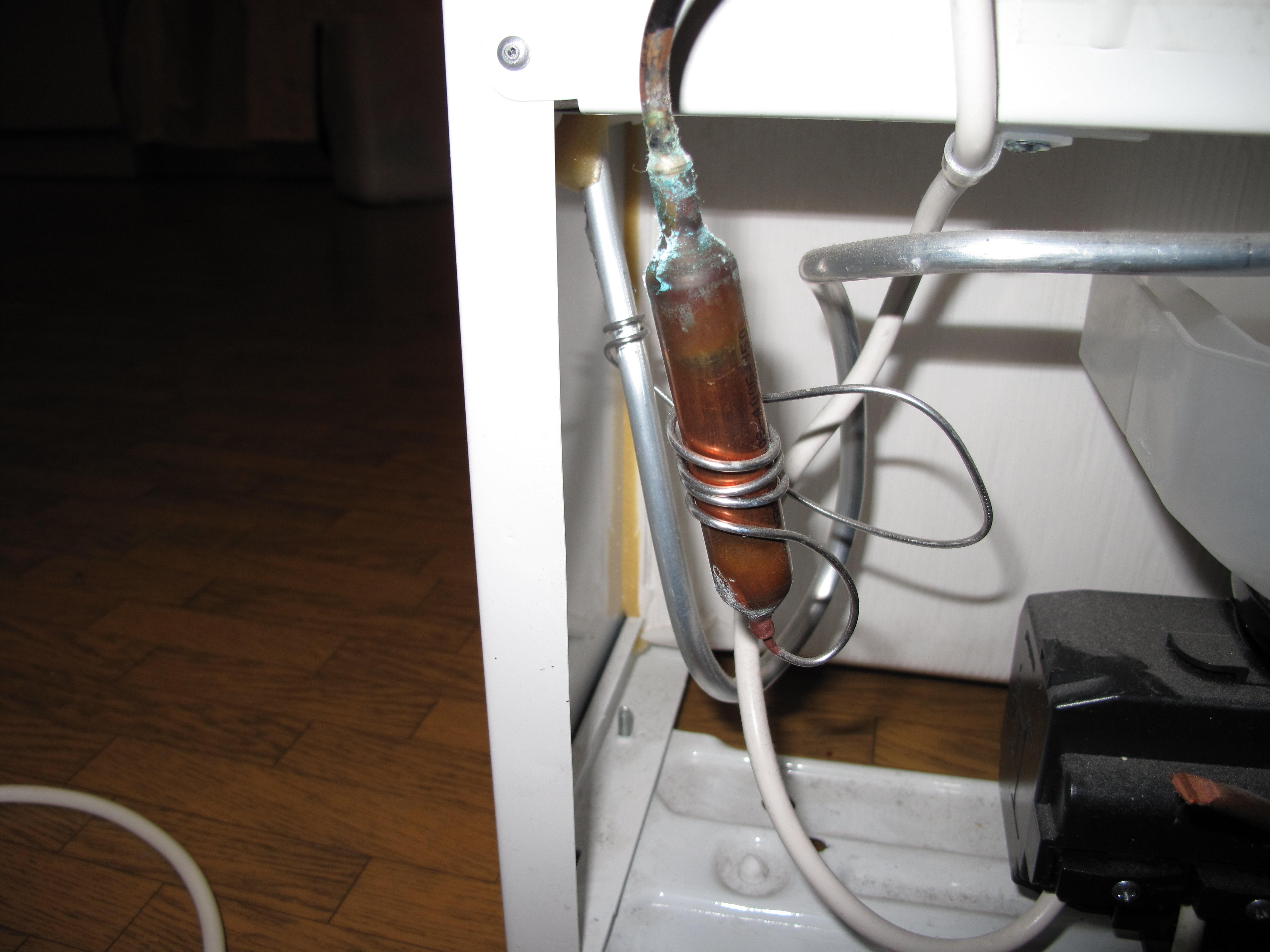 Thermosat of Zanussi fridge, type ZRA 319 SW.